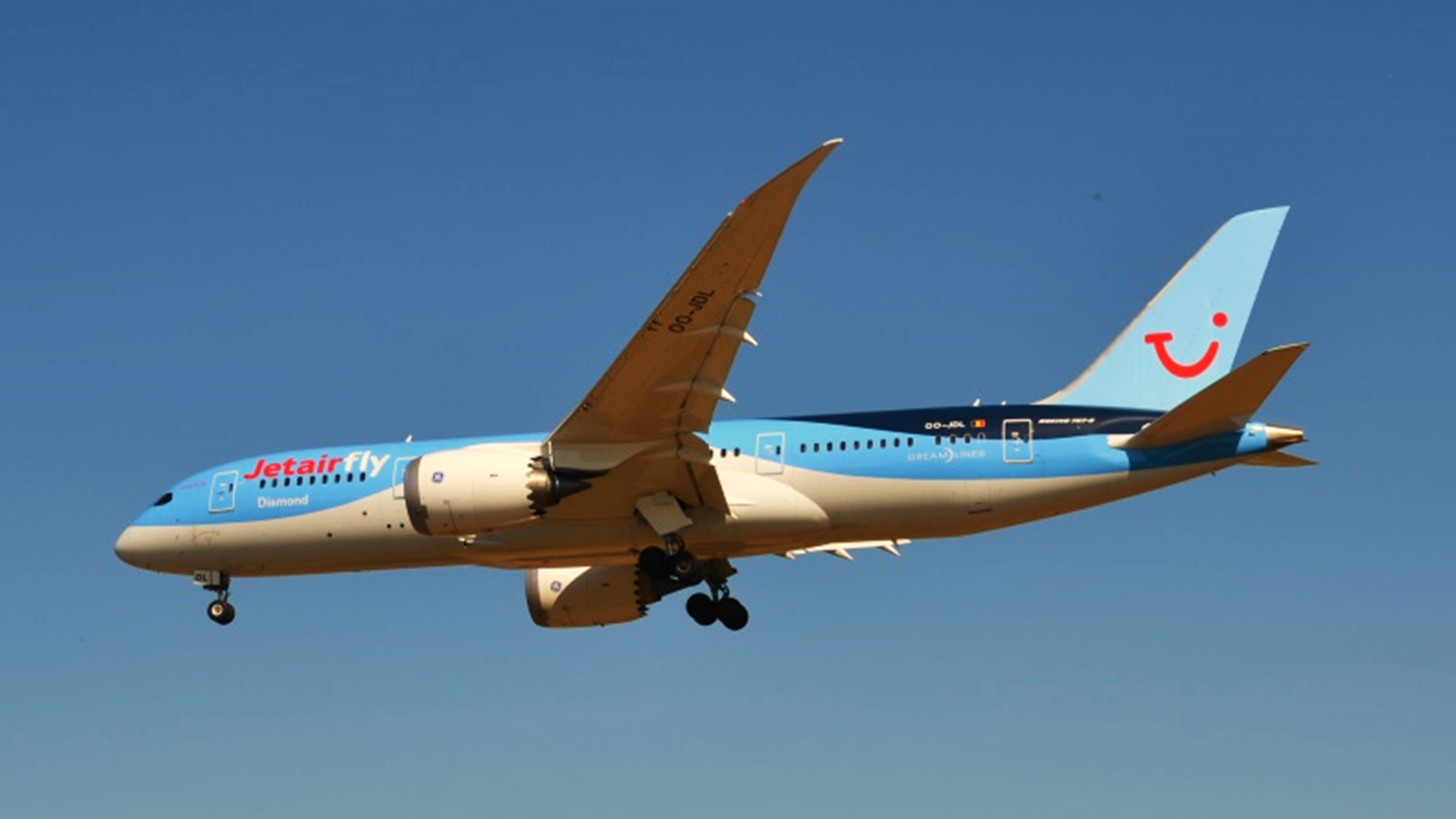 The Boeing 787-8 Dreamliner of Jetairfly